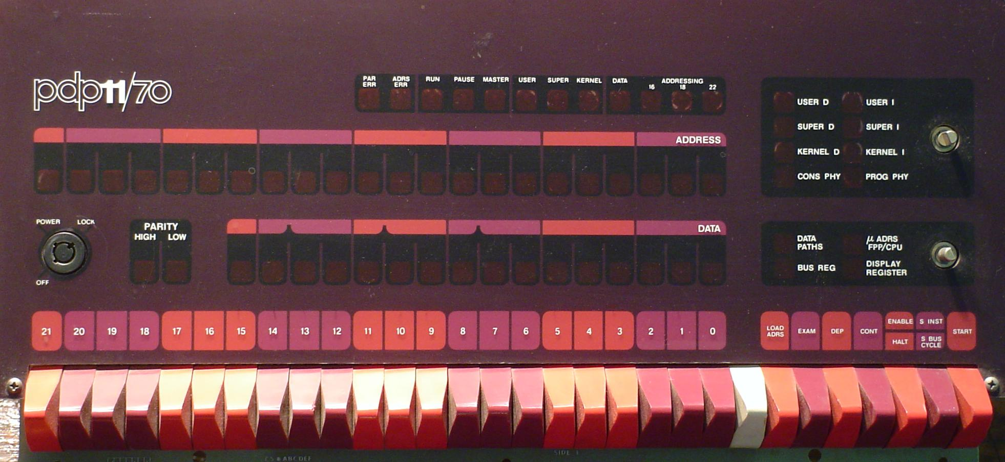 Front panel from a PDP-11/70. From the collection at the RCS/RI.